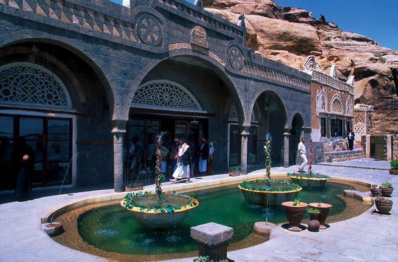 The Imam's Dar al-Hajar Palace — in Whadi Dhahr, Yemen. Courtyard garden with fountain.